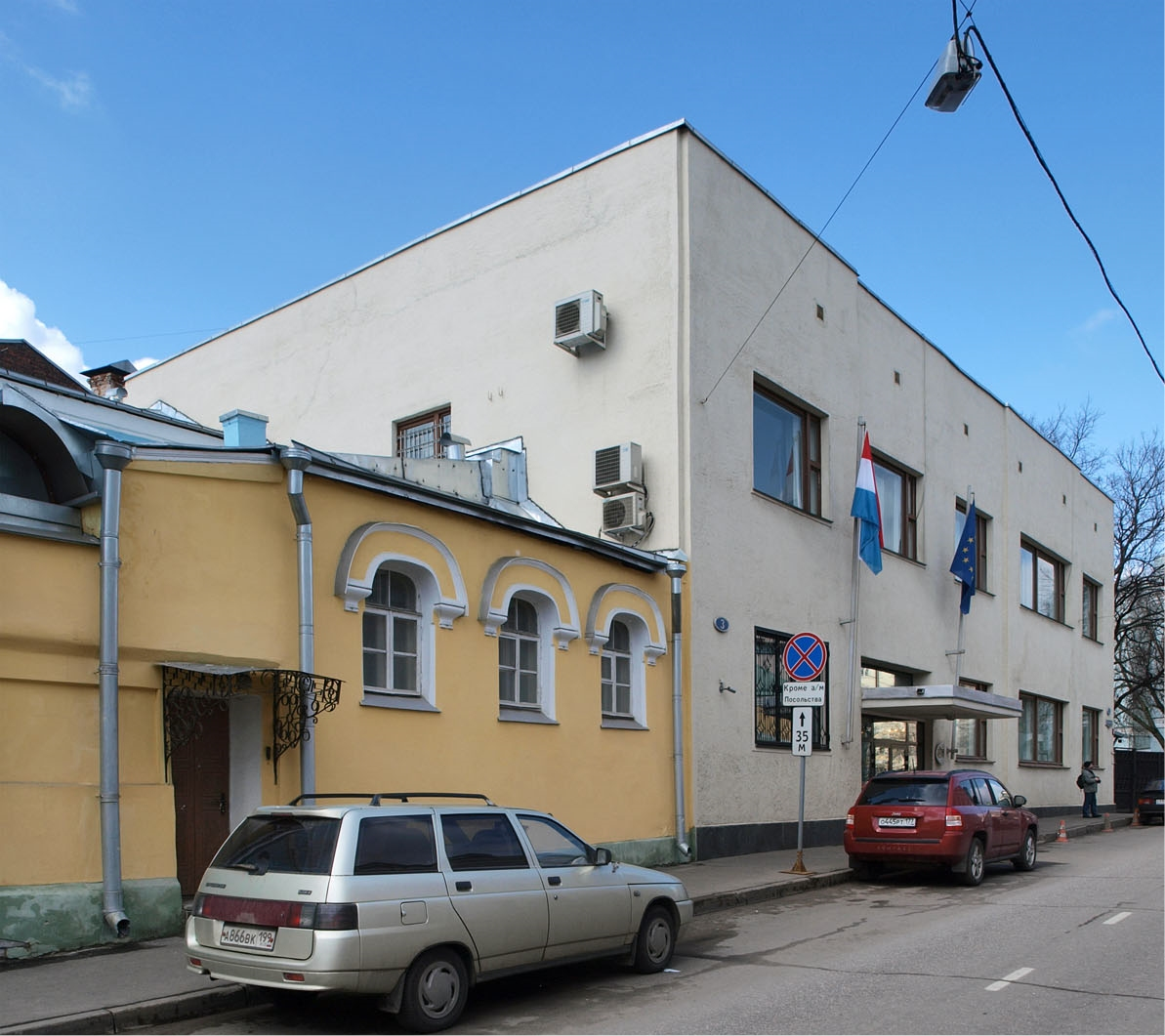 Embassy of Luxembourg in Moscow (3, Khrushevsky lane)